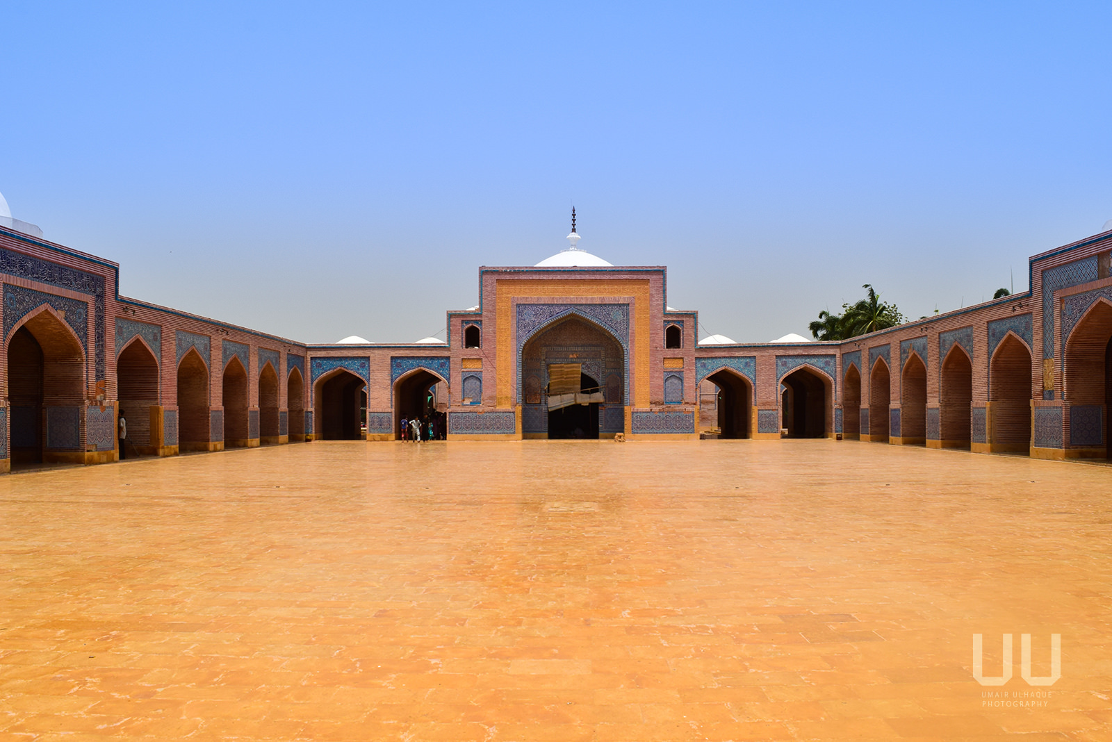 A view from the center of the Shah Jahan Mosque